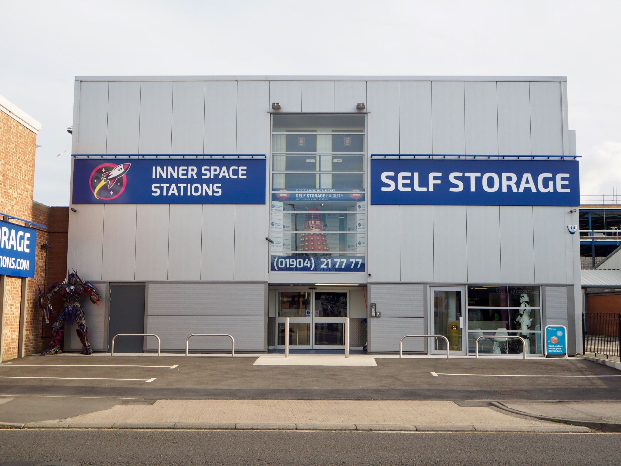 Inner Space Stations self storage centre in Layerthorpe, York.